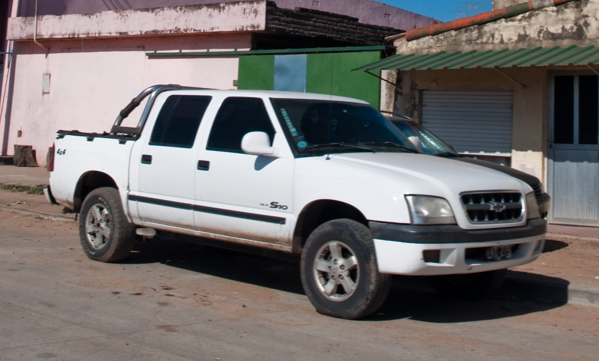 Small town essentials, Entre Rios, Argentina, 13th. Jan. 2011